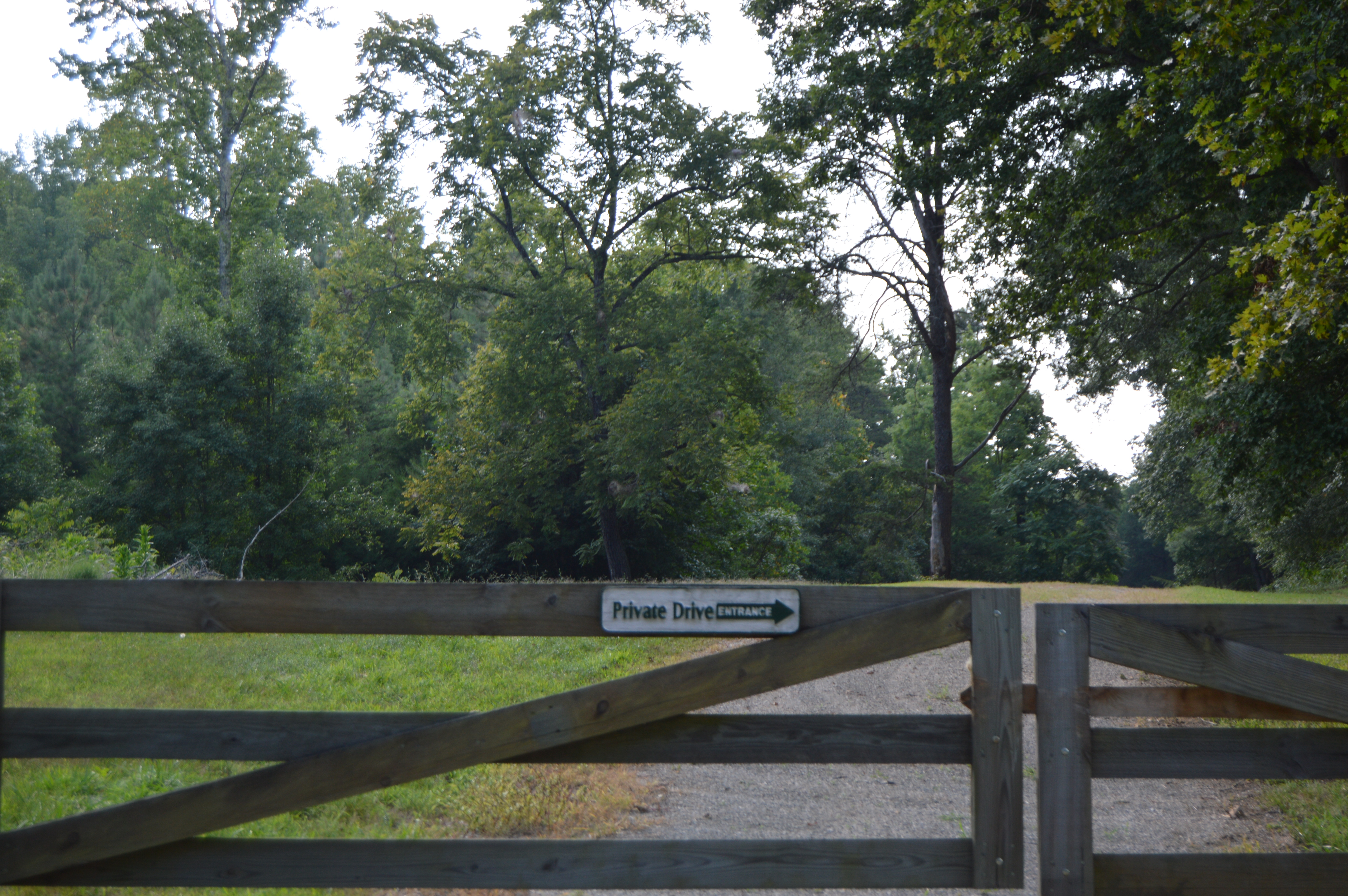 One of the entrances to the Springdale estate, located off Cardwell Road south of Oilville in Goochland County, Virginia, United States. The estate is listed on the National Register of Historic Places.